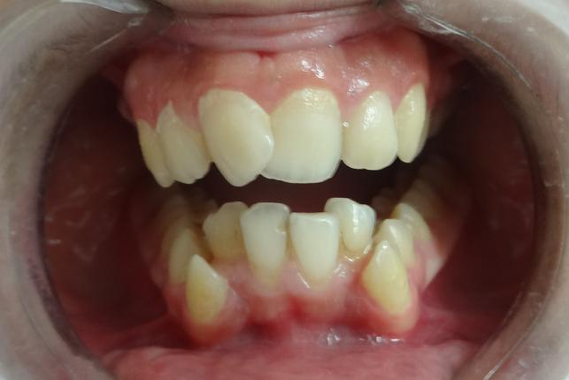 Hyperdontia